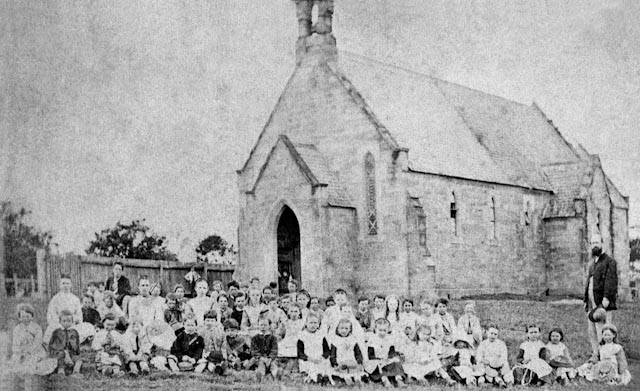 St Paul's Anglican Church (opened 1850, consecrated 1857) in the background was first known as being in the Pennant Hills district in the colony of New South Wales. The area became known as Carlingford from 1883. The Church was used as a school house until dedicated premises were constructed and occupied in 1872. This photo may date before 1872 which means the head teacher in the photo could possibly be David Thomas or George Molster. The woman in the dark coat to the left rear of the group may then be Mrs Thomas. Information source: Garland, Roger (1983). Carlingford Public School centenary, 1883-1983, Carlingford: Carlingford Public School ISBN 0 9592646 0 4